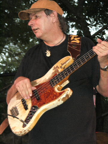 Tommy Shannon at Blues on the Green in Austin, TX (2006). Photo by Ron Baker.